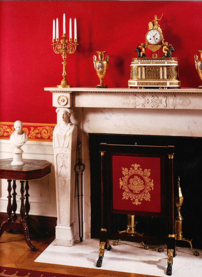 Detail of the White House Red Room. White House photograph Source Clinton Presidential Materials, National Archives and Records Administration.